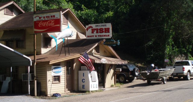 The Typical Baitshop, Ubiquitous Throughout The South